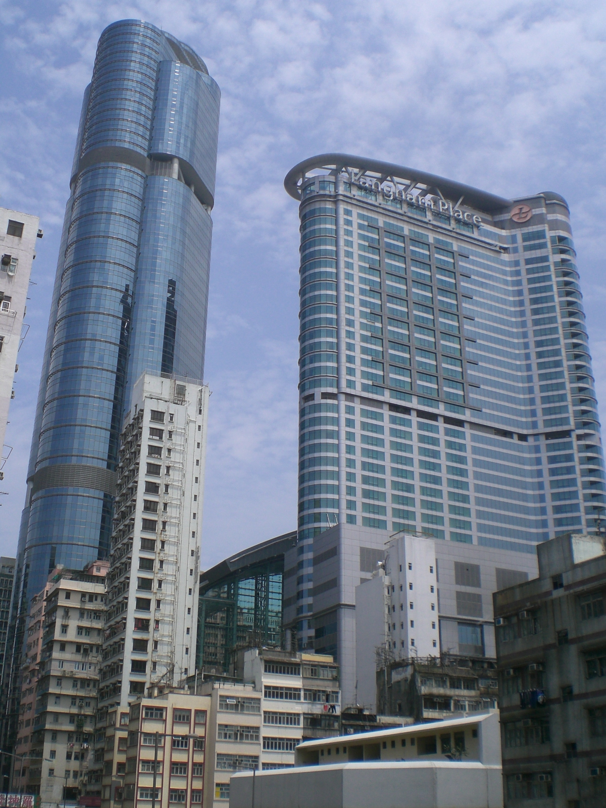 旺角zh:朗豪坊